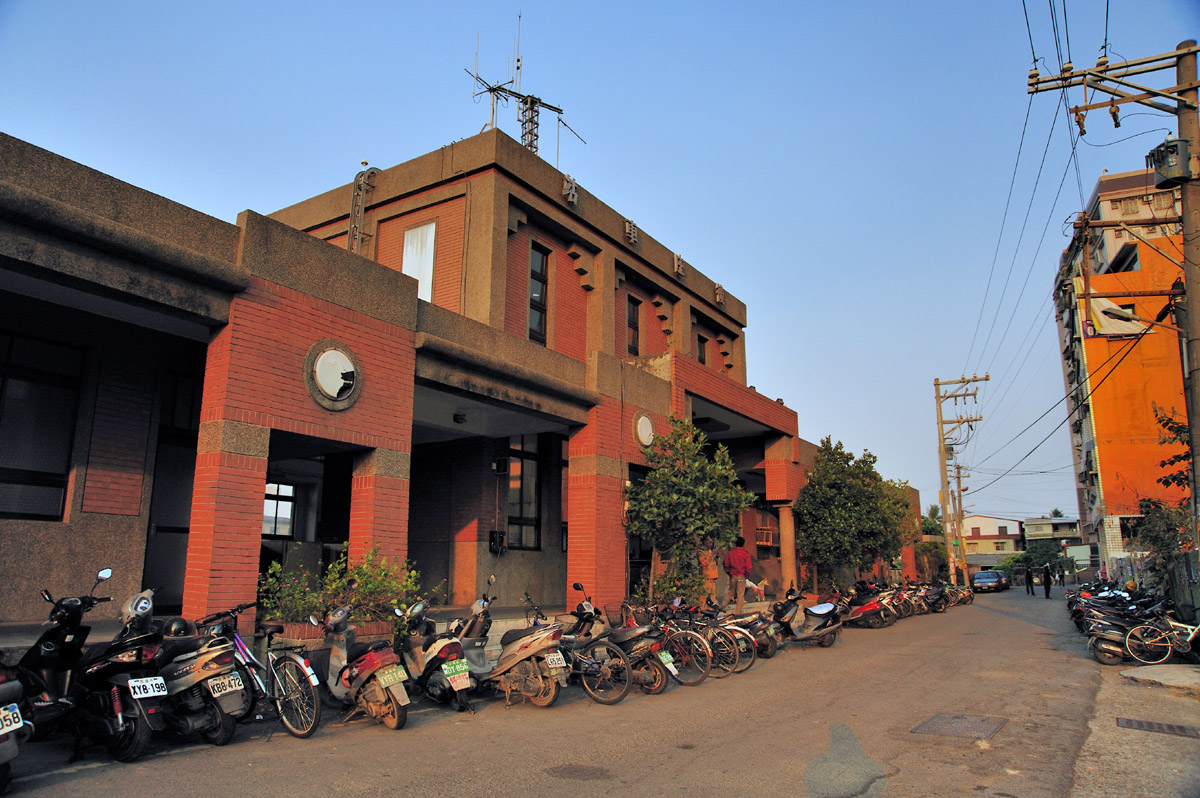 HouJhuang Station is a local station of TRA PingTung Line.